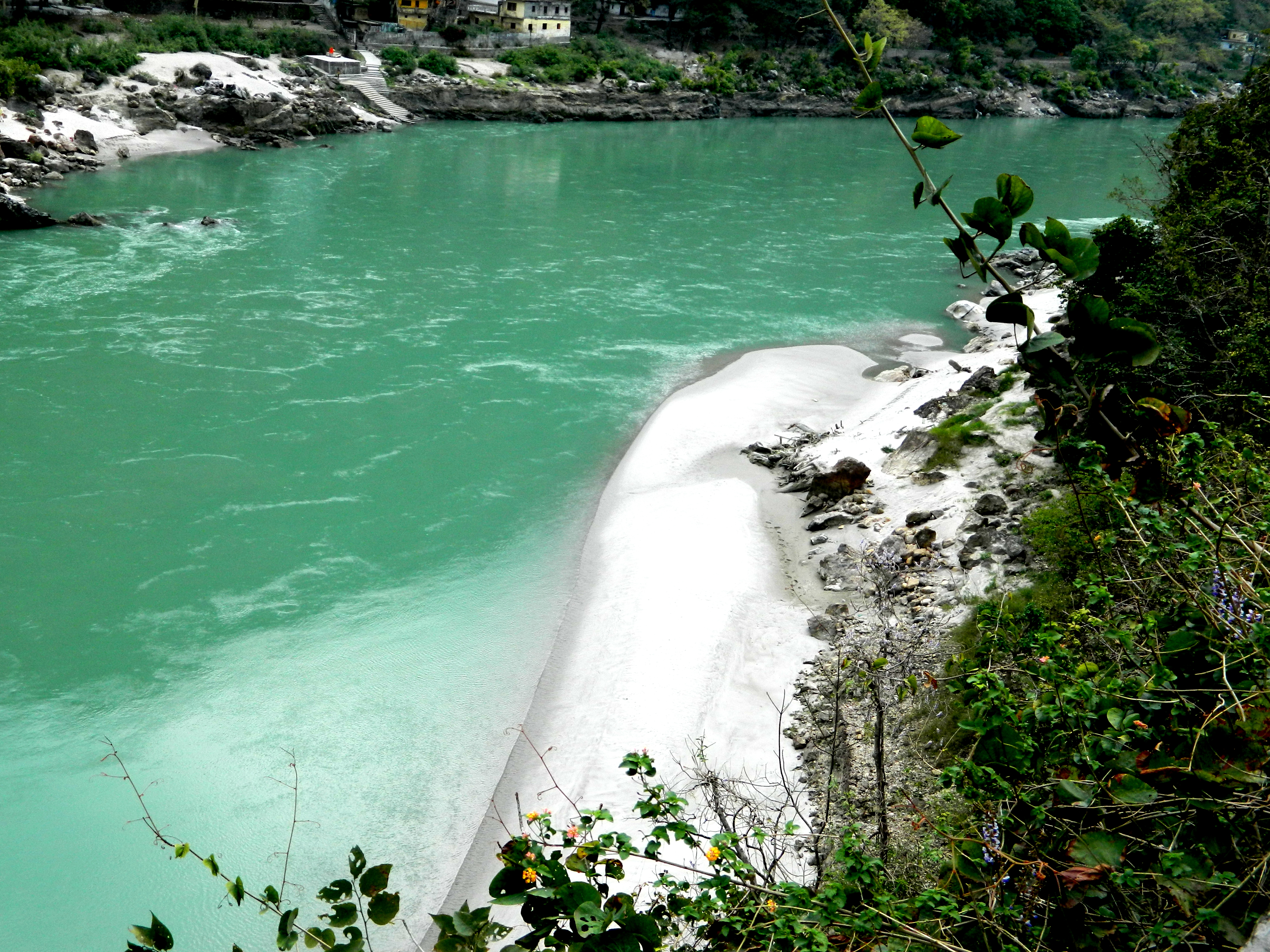 beaches in rishikesh